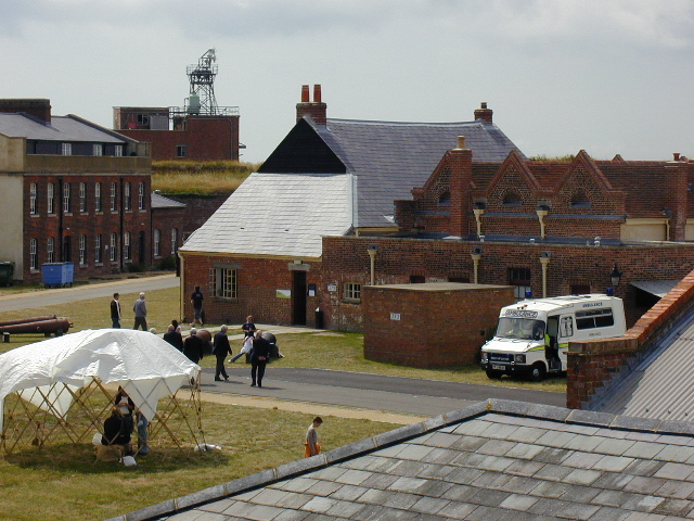 Inside Fort Cumberland